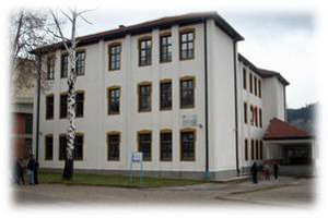 Гимназија